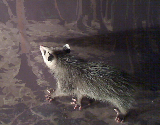 Opposable thumb on rear foot of a Virginia Opossum. Photographed using an automated device.